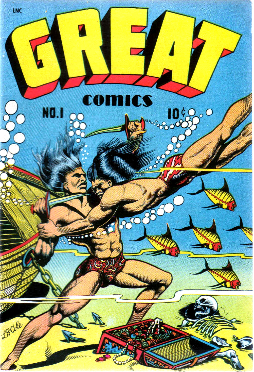 Cover scan of a Great Comics #1, 1945, Croydon Publishing Co.